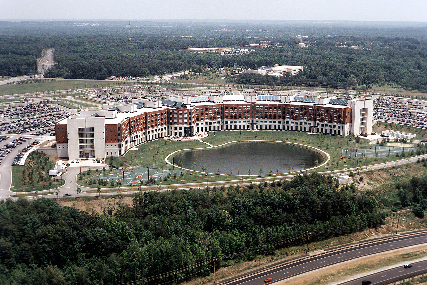 The Defense Logistics Agency (DLA) headquarters, also known as the Andrew T. McNamara Headquarters Complex, at Fort Belvoir, Virginia. Fort Belvoir is located near Lorton, Virginia, USA.